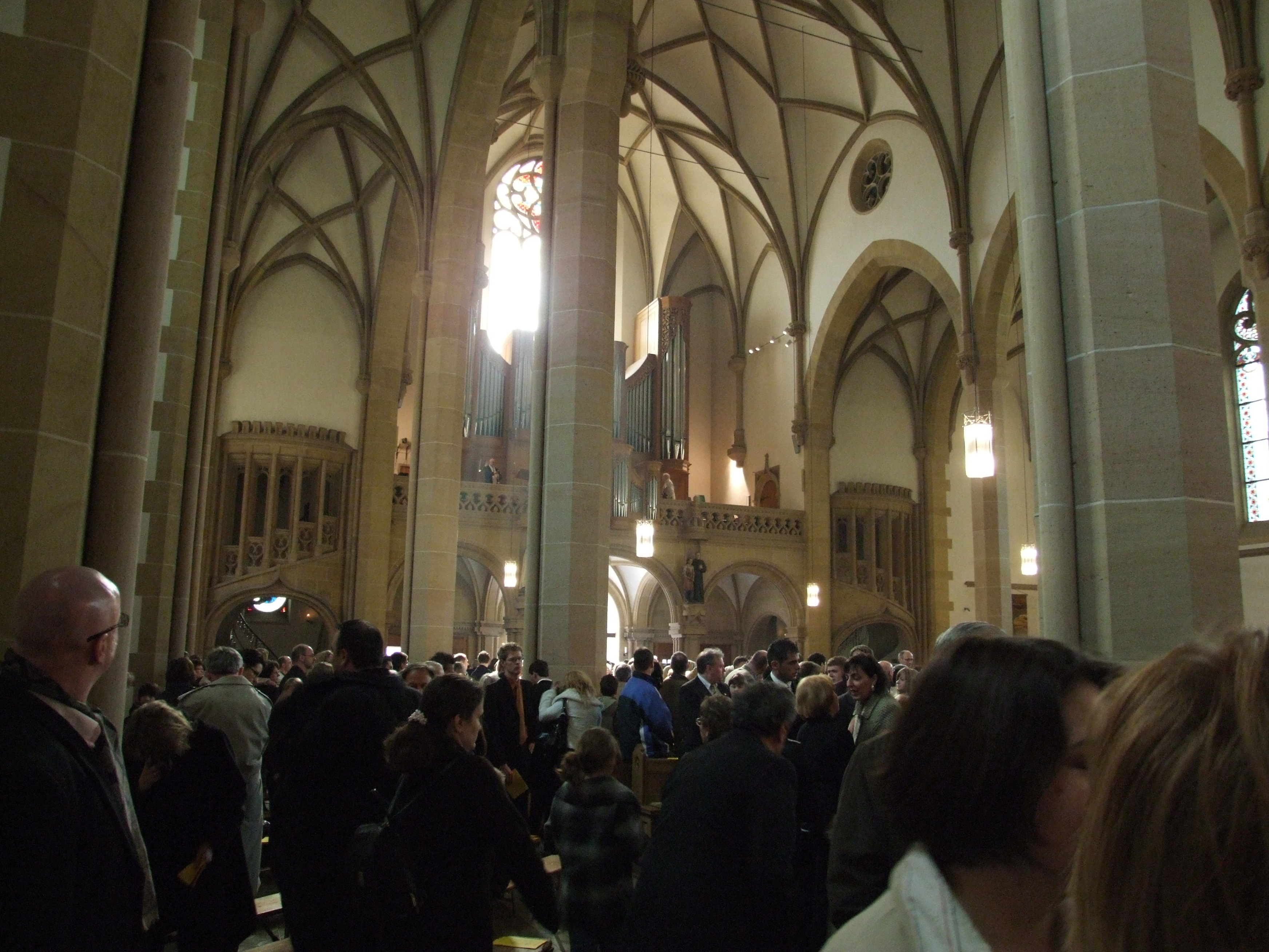 St. Joseph, Speyer, view to east